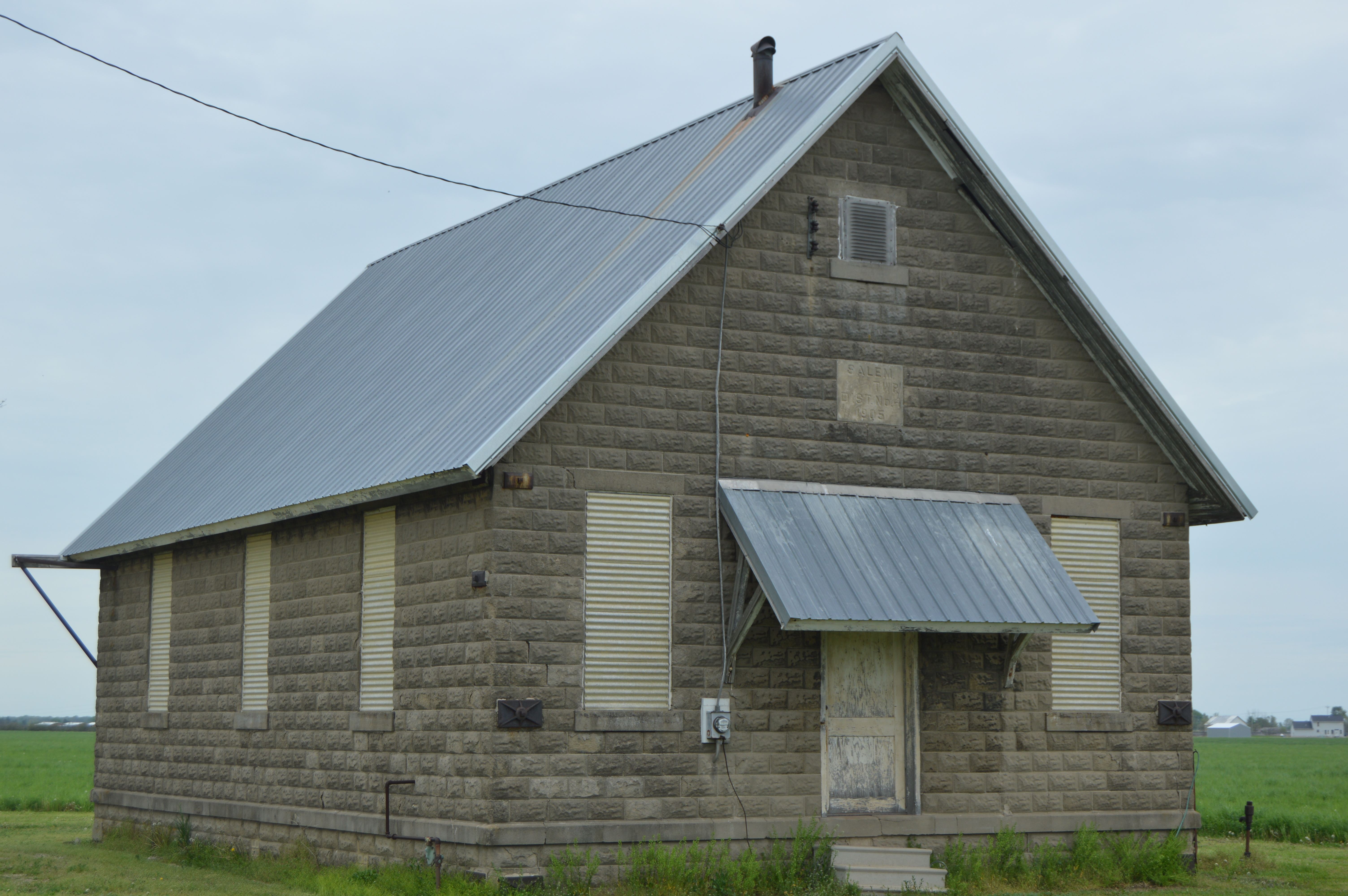 Front and western side of the former Salem Township #4 School, located on State Route 163 at the Vogel Road intersection in Salem Township, Ottawa County, Ohio, United States. It was built in 1905.